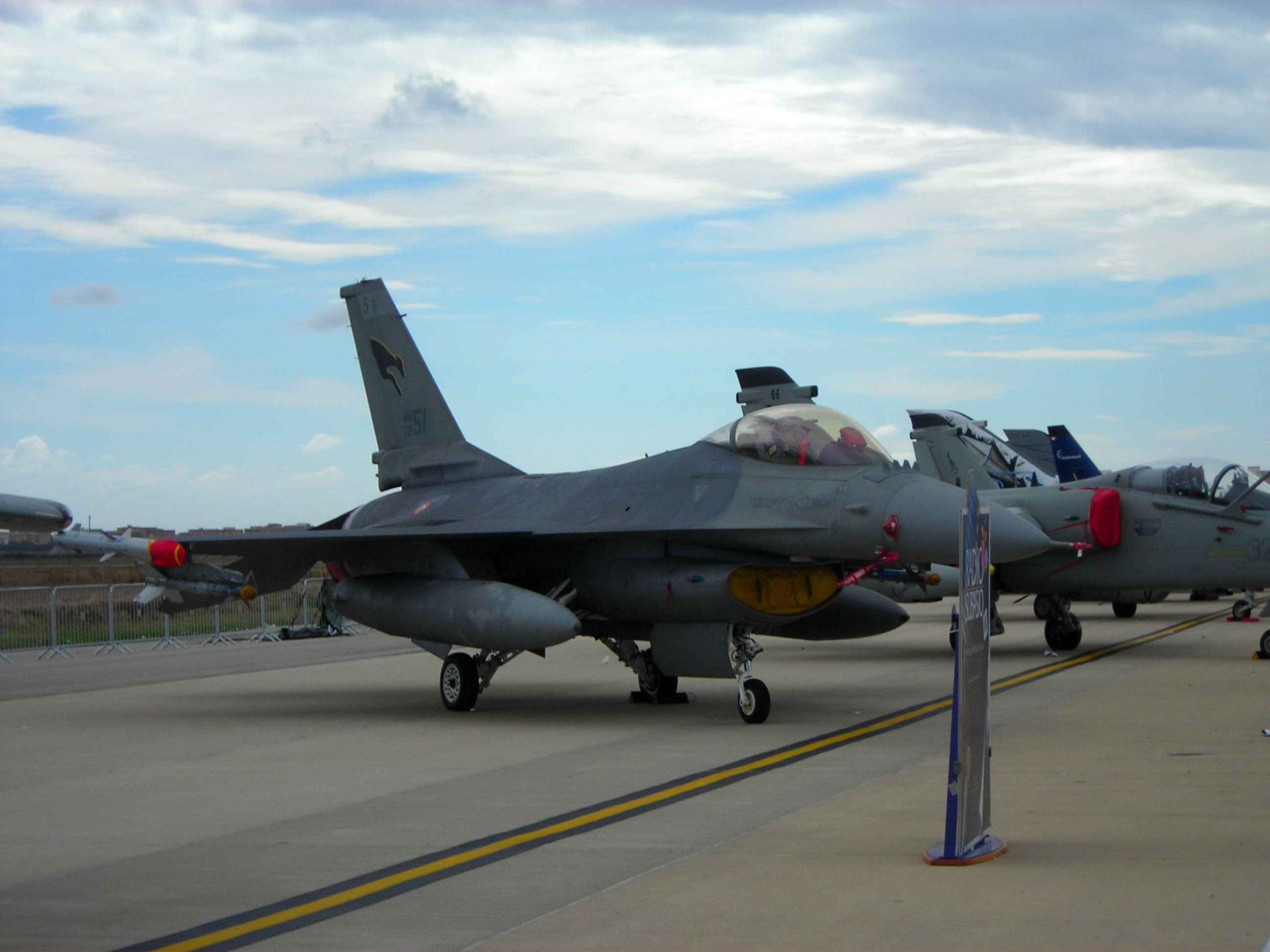 F-16 ADF used by Italian Air Force Picture taken during "Giornata Azzurra" 2006 (Italian Air Force airshow) at Pratica di Mare AFB, Italy.